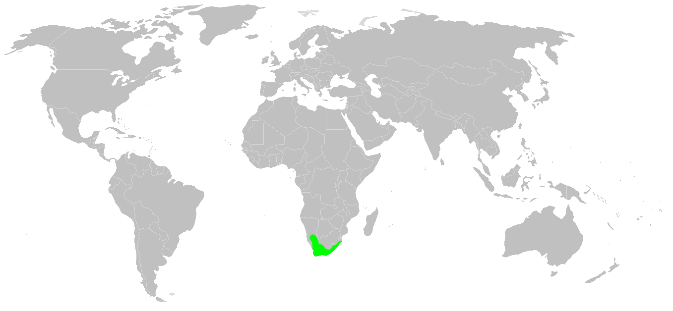 natural world distribution of Leucadendron, according to the book "Plant" (2005) ISBN 075660589X